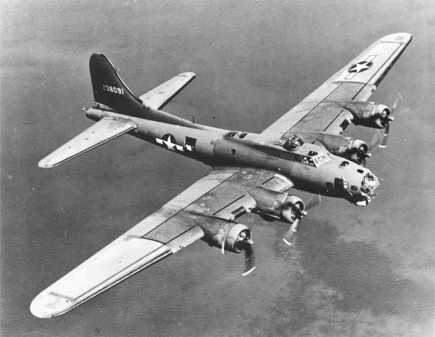 B-17 Flying Fortress, Serial number 238091